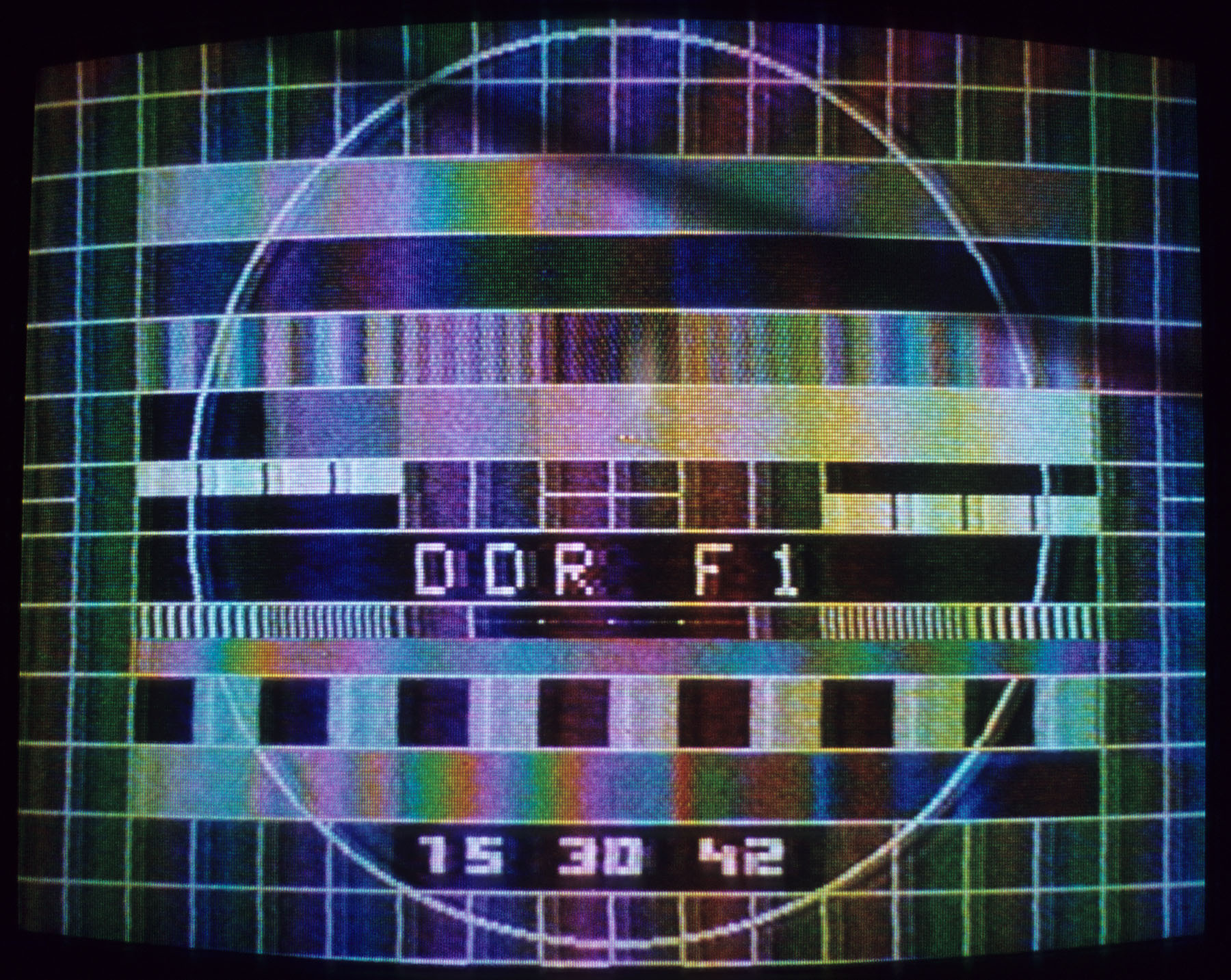 Test pattern of former 1st program of GDR television